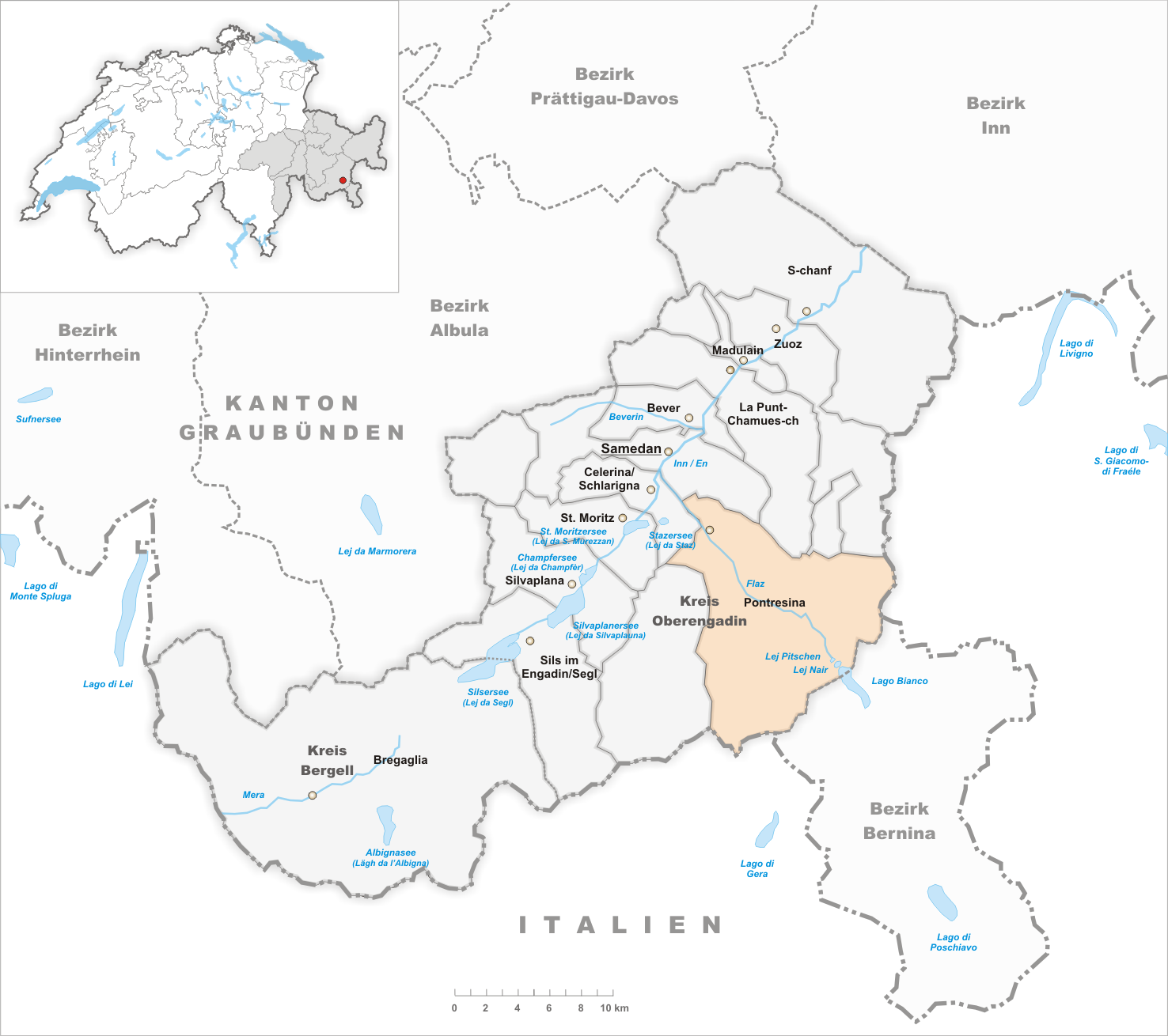 Municipality Pontresina